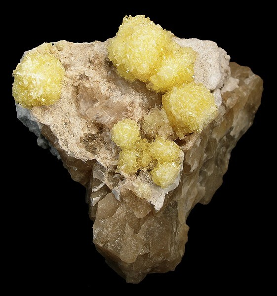 Hydroboracite Locality: Inder B deposit and salt dome, Atyrau (Gur'yev), Atyrau Oblysy (Atyrau Oblast'), Kazakhstan (Locality at ) Size: 6.5 x 6.3 x 3.8 cm. Emplaced on a color-contrasting gray matrix that is actually a mass of large gorgeyite crystals, is a cluster of discrete rosettes of lustrous, light lemon-yellow hydroboracite. The color may be due to the presence of preobrazhenskite. The largest rosette measures 1.6 cm across. Only rarely does this species crystallize in specimens of this quality. I have seen just a handful, presumably all from one freak pocket, of this material over the years. Jack purchased this in the mid-1990s as much interesting Russian material flowed out to market, not for the rarity at all, but because it was simply pretty in a style and form unique compared to other minerals. Ex. Jack Halpern Collection.